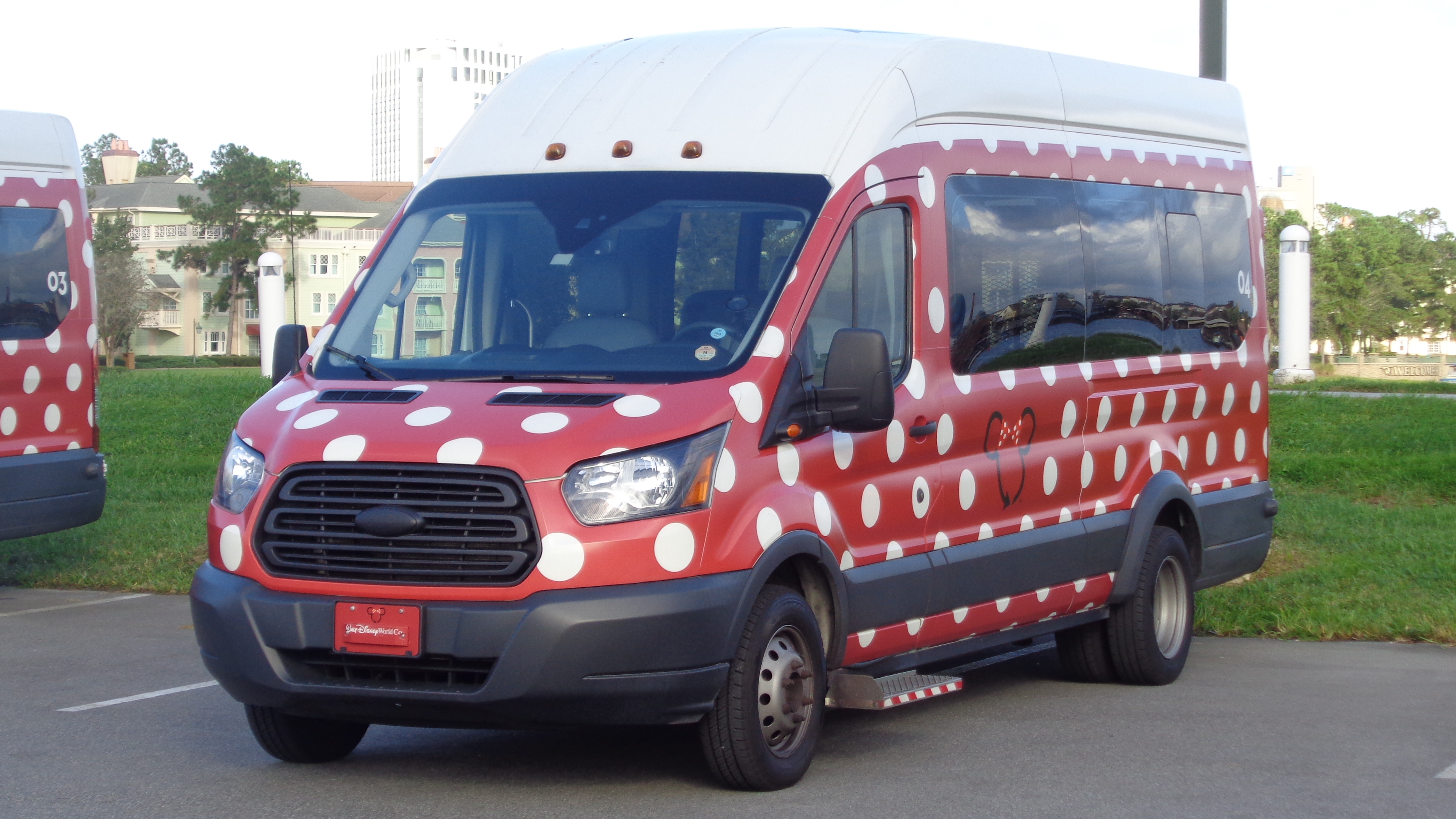 A Minnie Van ride-hailing vehicle at Disney Springs in Walt Disney World.